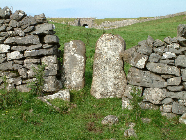 Squeezer stile. This stile is located on the footpath leading down from the High Peak Trail to Roystone Grange.